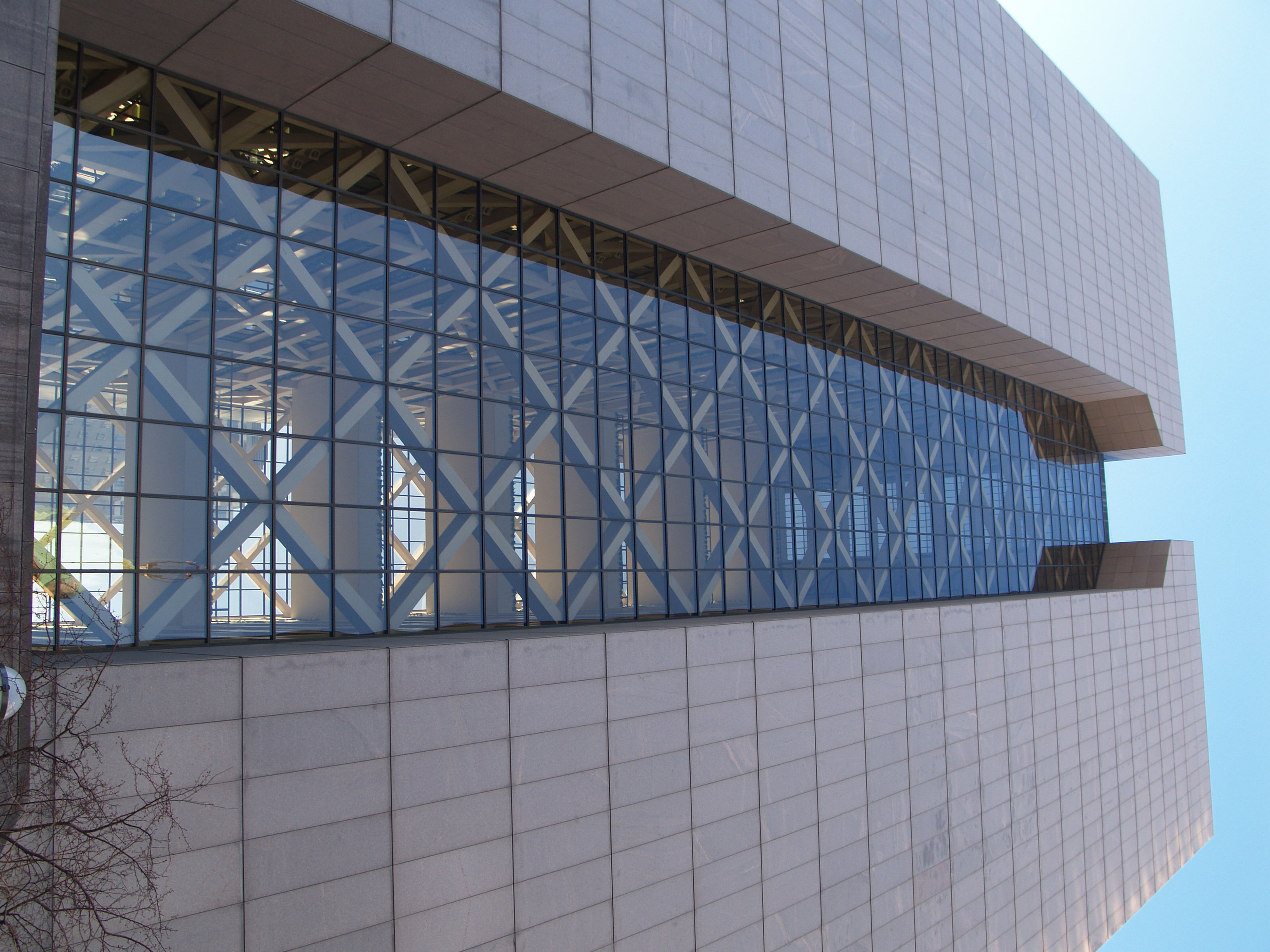 Photo taken by Micah of the Hennepin County Government Center on 23 Dec 2005.